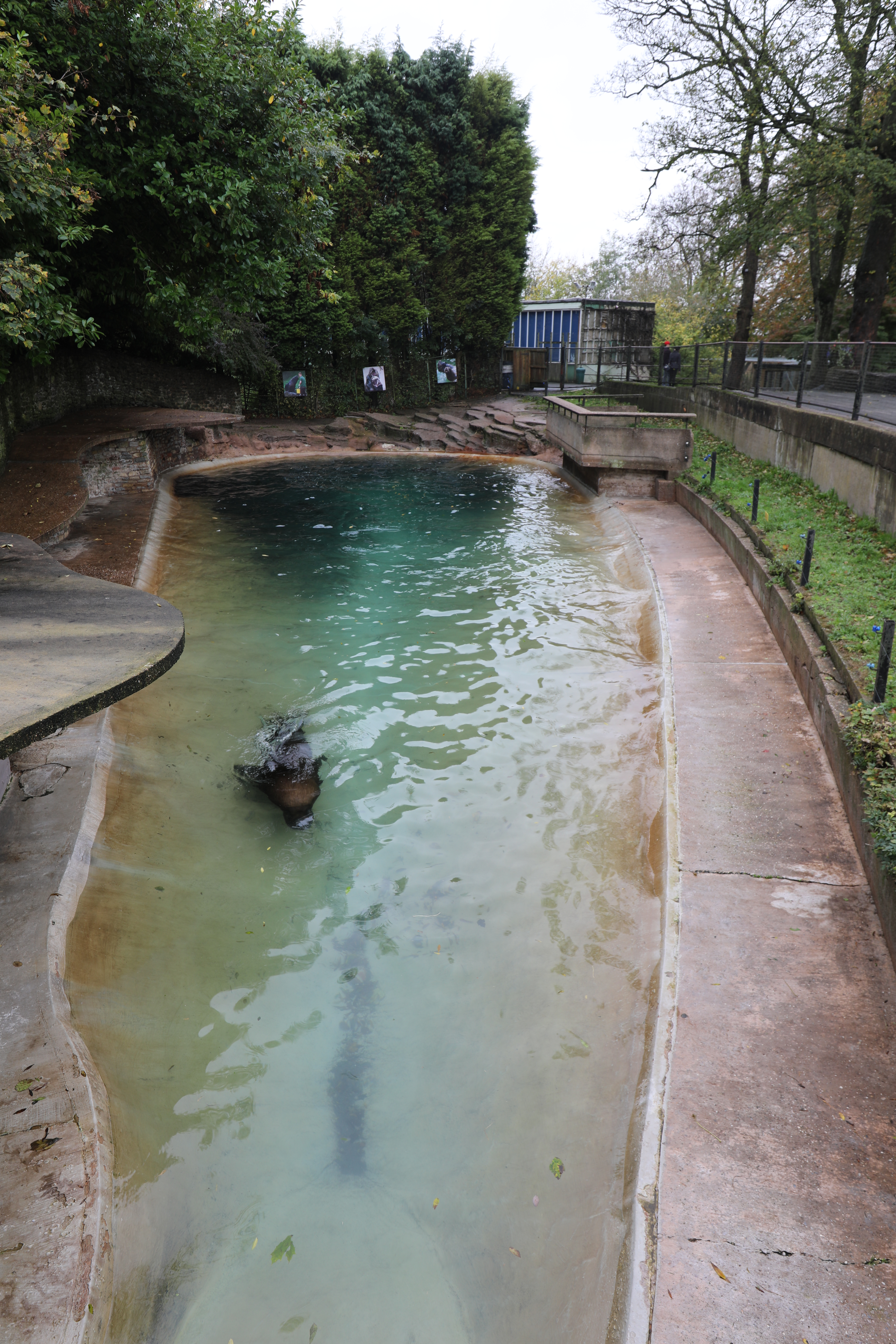 Photo of one of the sea lion pools at dudley zoo.